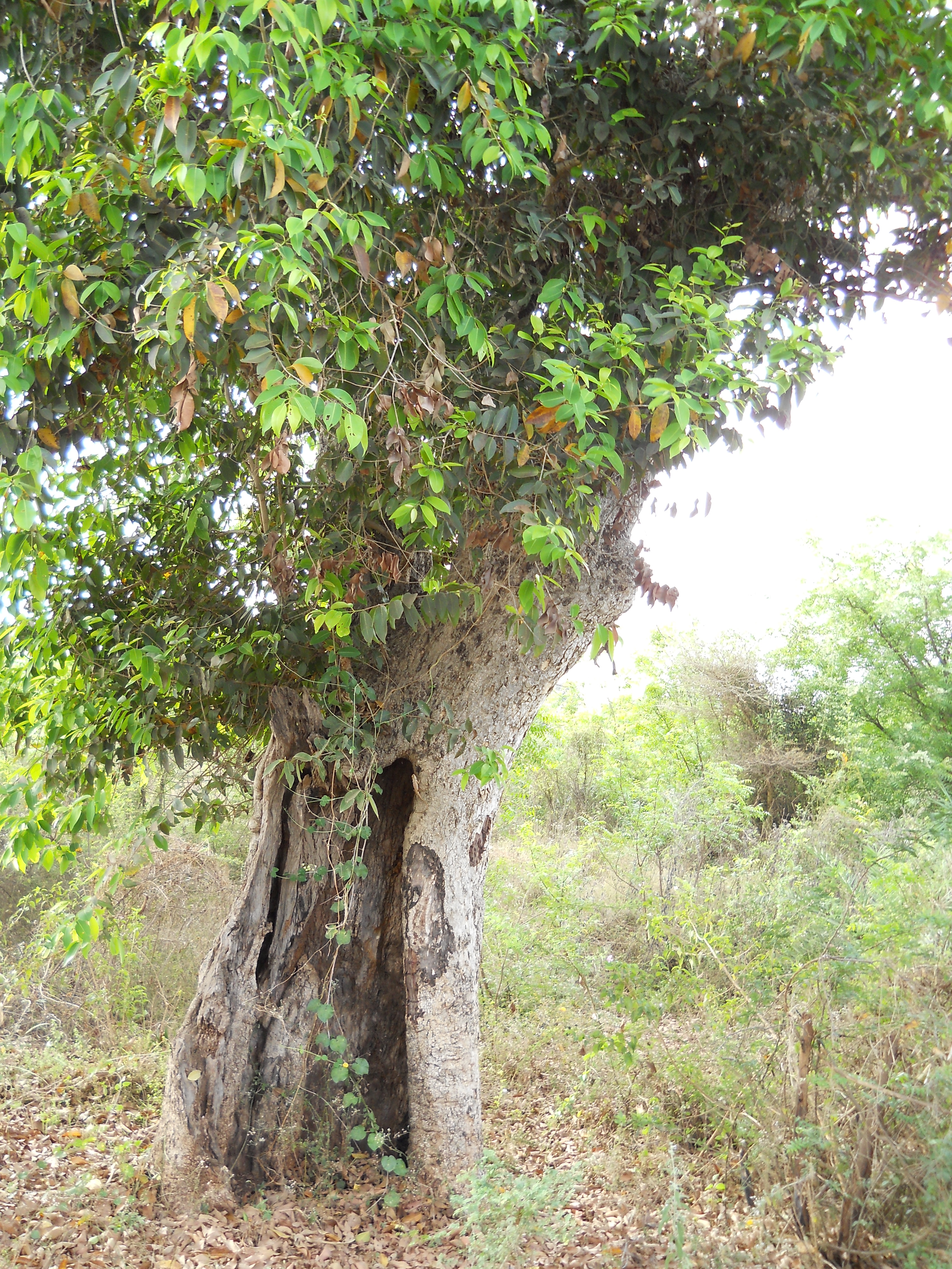 Tree hollow